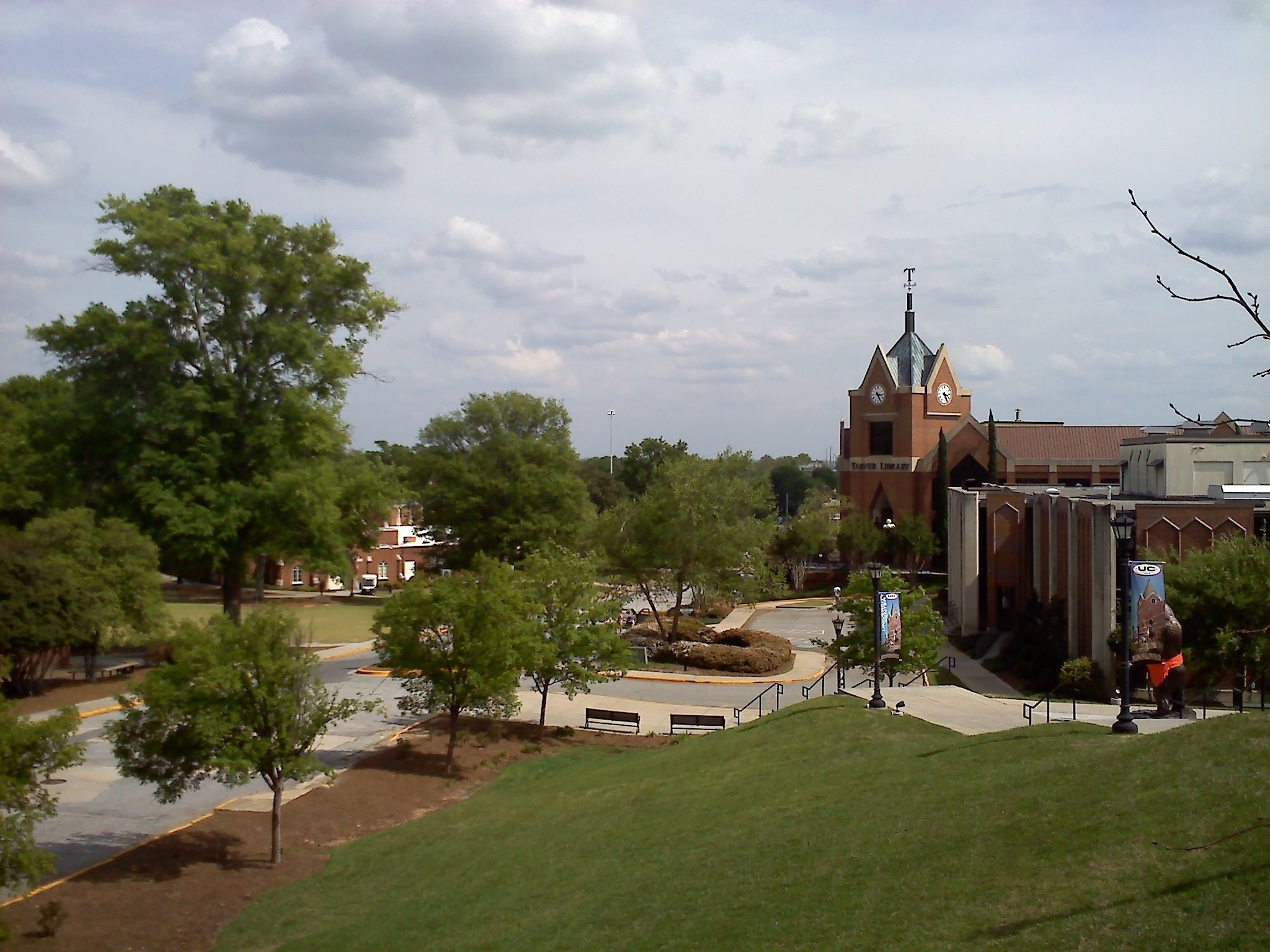 Mercer University's central quad in Macon, Georgia, United States. Tarver Library (with tower) and Stetson Hall (School of Business and College of Education) are on the right.